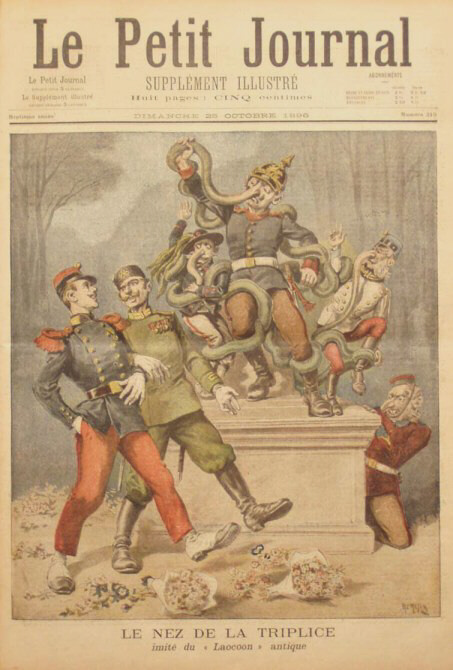 Caricature on the cover of Petit Journal in 1896. the triple alliance is twisted in the noses of its members in the manner of classic Laocoon, while France and Russia are walking boldly confident of their recent alliance.